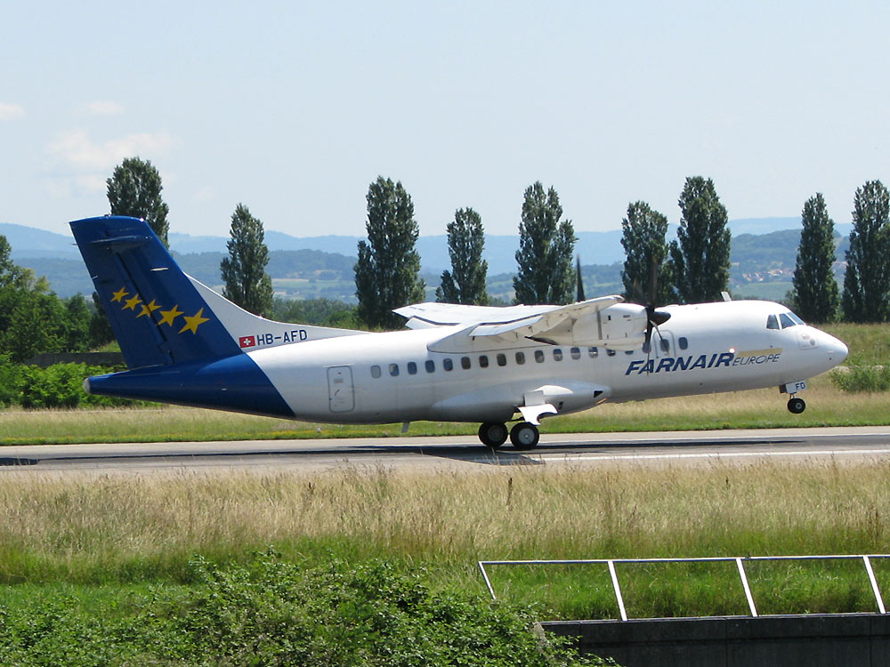 Farnair ATR in Basel